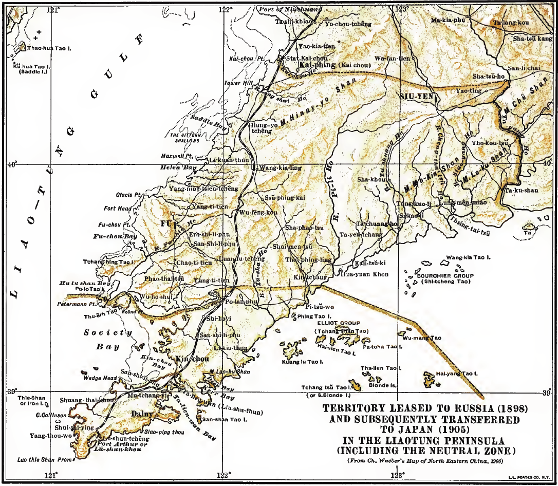 Territory Leased to Russia (1898) and subsequently transferred to Japan (1905) in the Liaotung Peninsula (including the neutral zone)